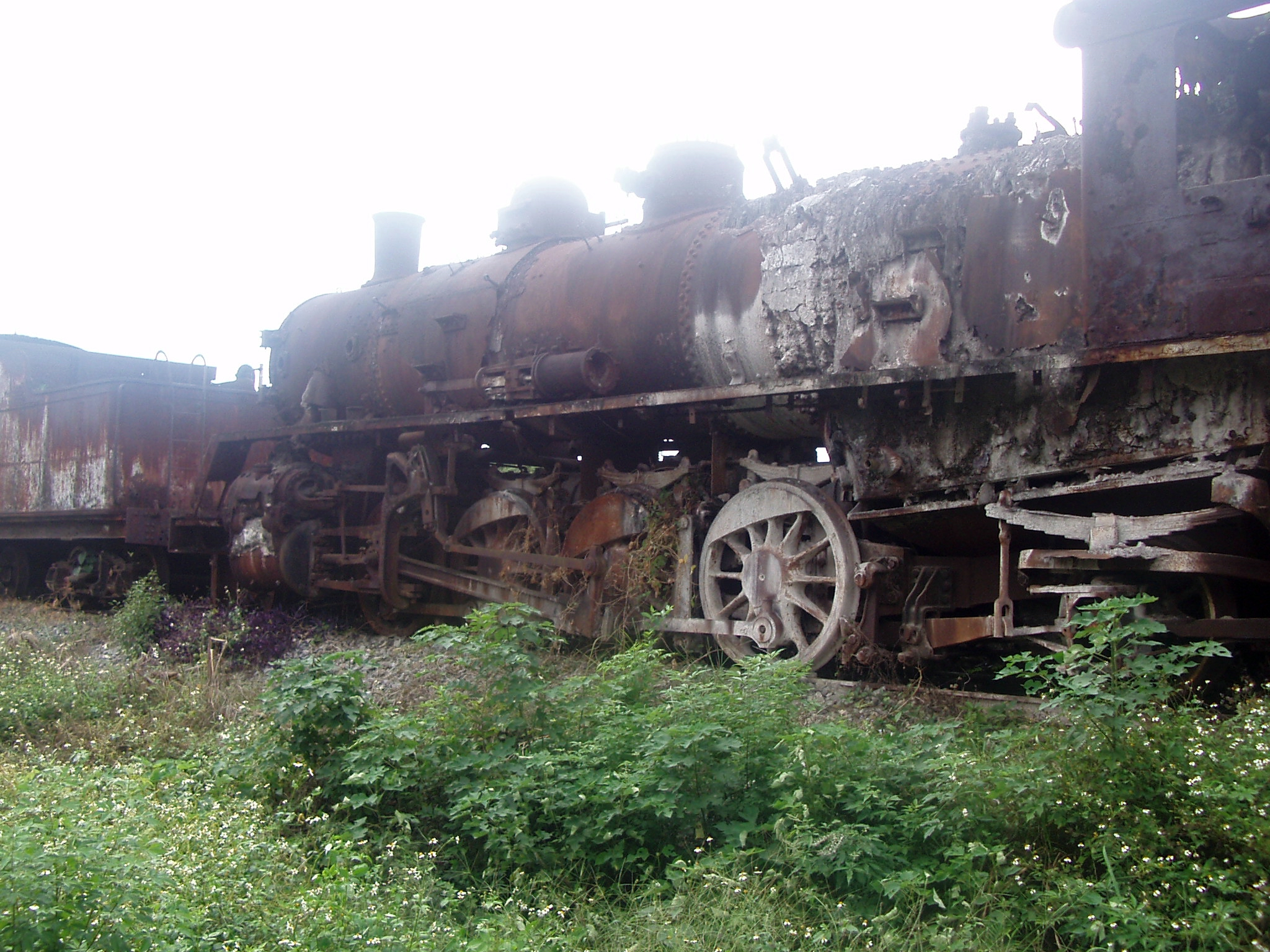 Three JF6 Steam Locomotives in Heshan, Laibin, China.